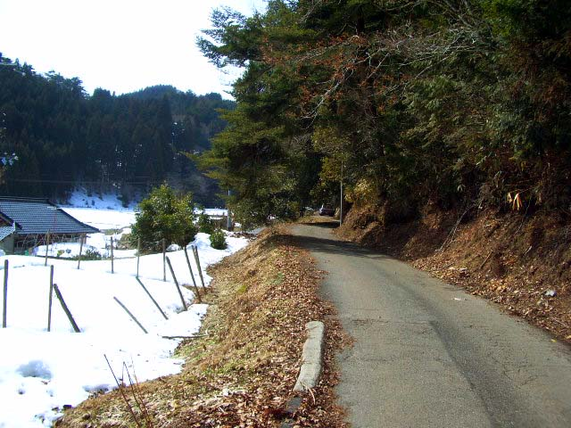 This photo is a section of Japanese National Route 477 (Ohara-Momoi, Sakyo ward, Kyoto city, Kyoto Pref.). Route 477 has various character. Everyone will not believe this section is national route, everyone will recognize a simple farm road. However, this section is actual national route. Some route maniacs (called as kokudou mania) love this national route.